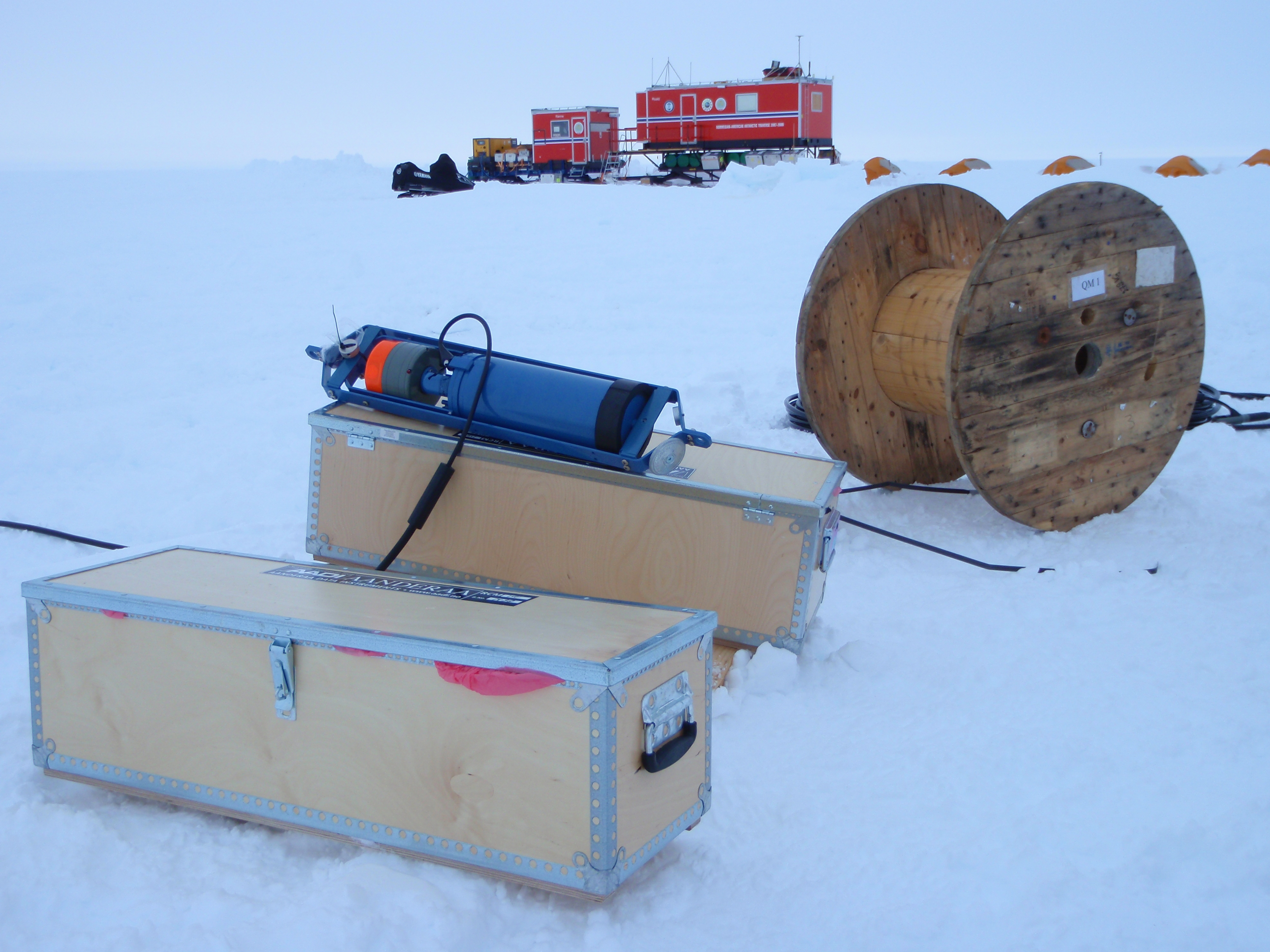 Three oceanographic moorings, each with two current meters, were placed below the Fimbul ice shelf in December 2009. The image shows the first mooring placed in a hot water drilled by the Norwegian Antarctic Research Expedition - Fimbul ice shelf - Top to Bottom - project.